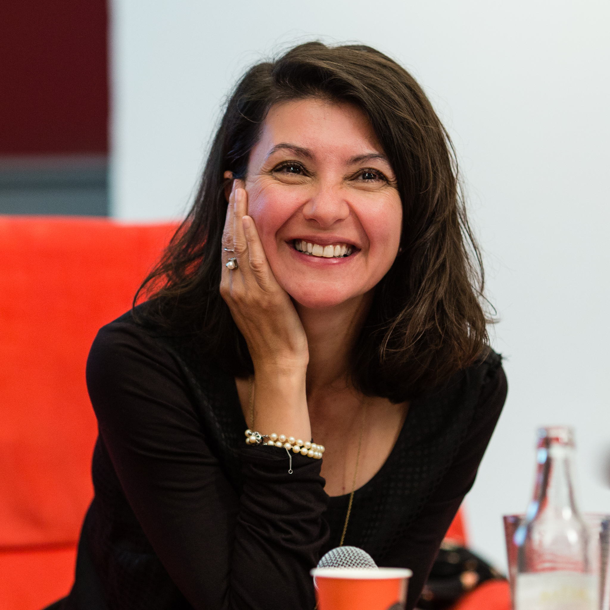 Çiler İlhan on Authors’ Reading Month 2018, Wrocław, Poland